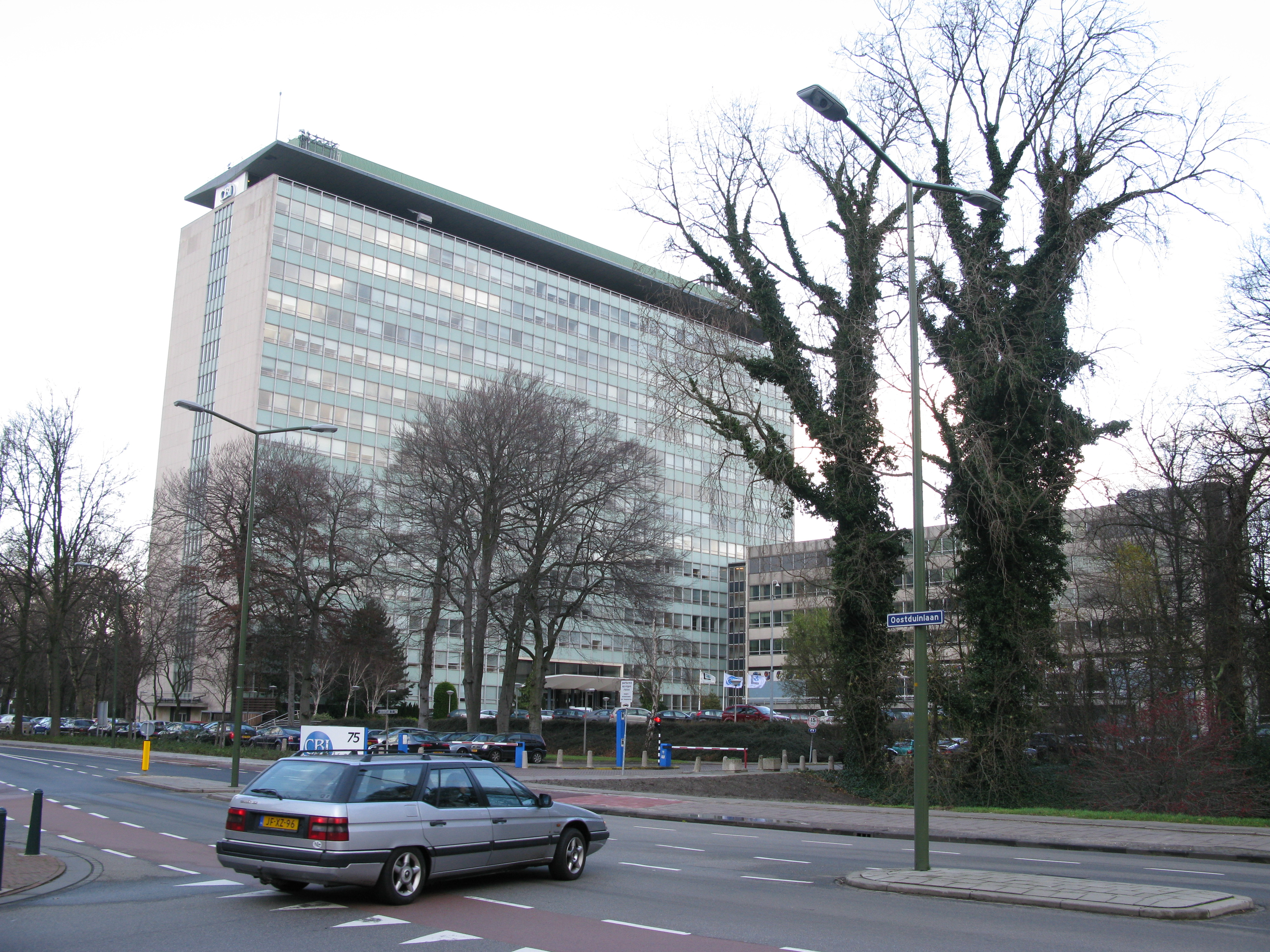 CBI Building also named Lumnus in the burrow Benoordenhout at The Hague. Architect Hans Oud (1968)